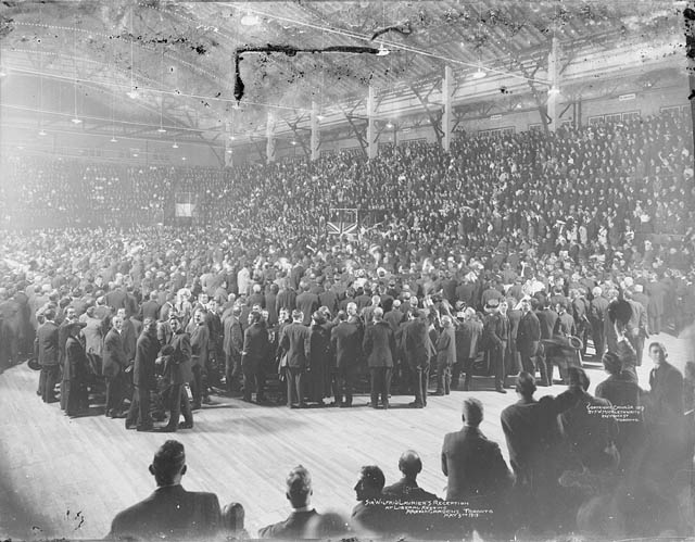 Sir Wilfrid Laurier's reception at Liberal meeting, Arena Gardens, Toronto, Canada.